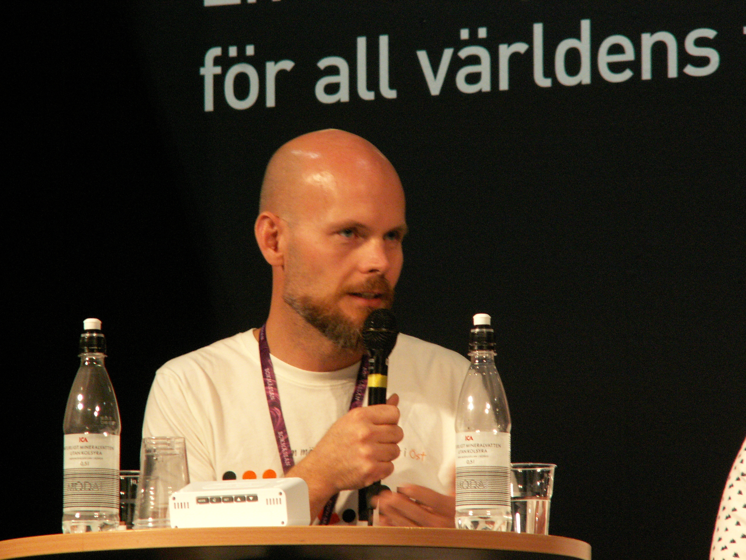 Jon Fridholm at Göteborg Book Fair 2017.